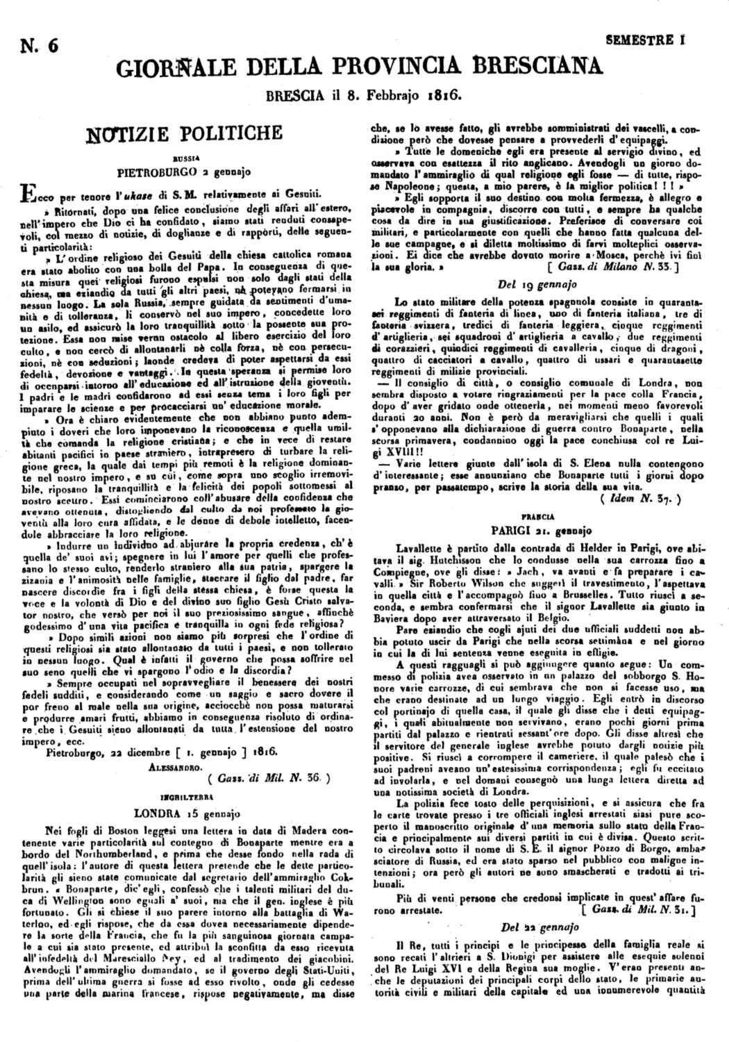 Front page of «Giornale della Provincia bresciana» of 8th February 1816.